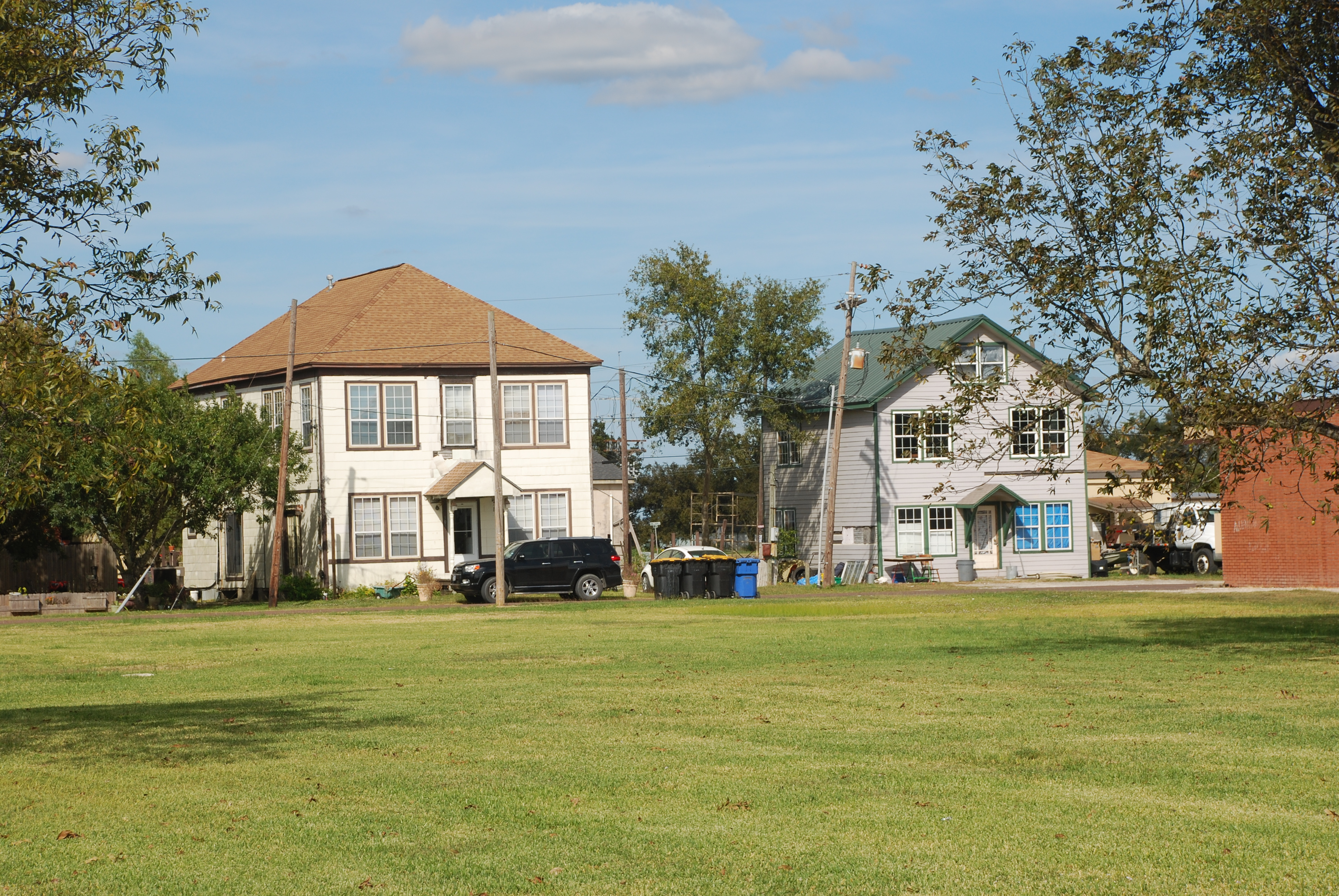 Houses along Wilcox Street, Anahuac (Texas, USA)